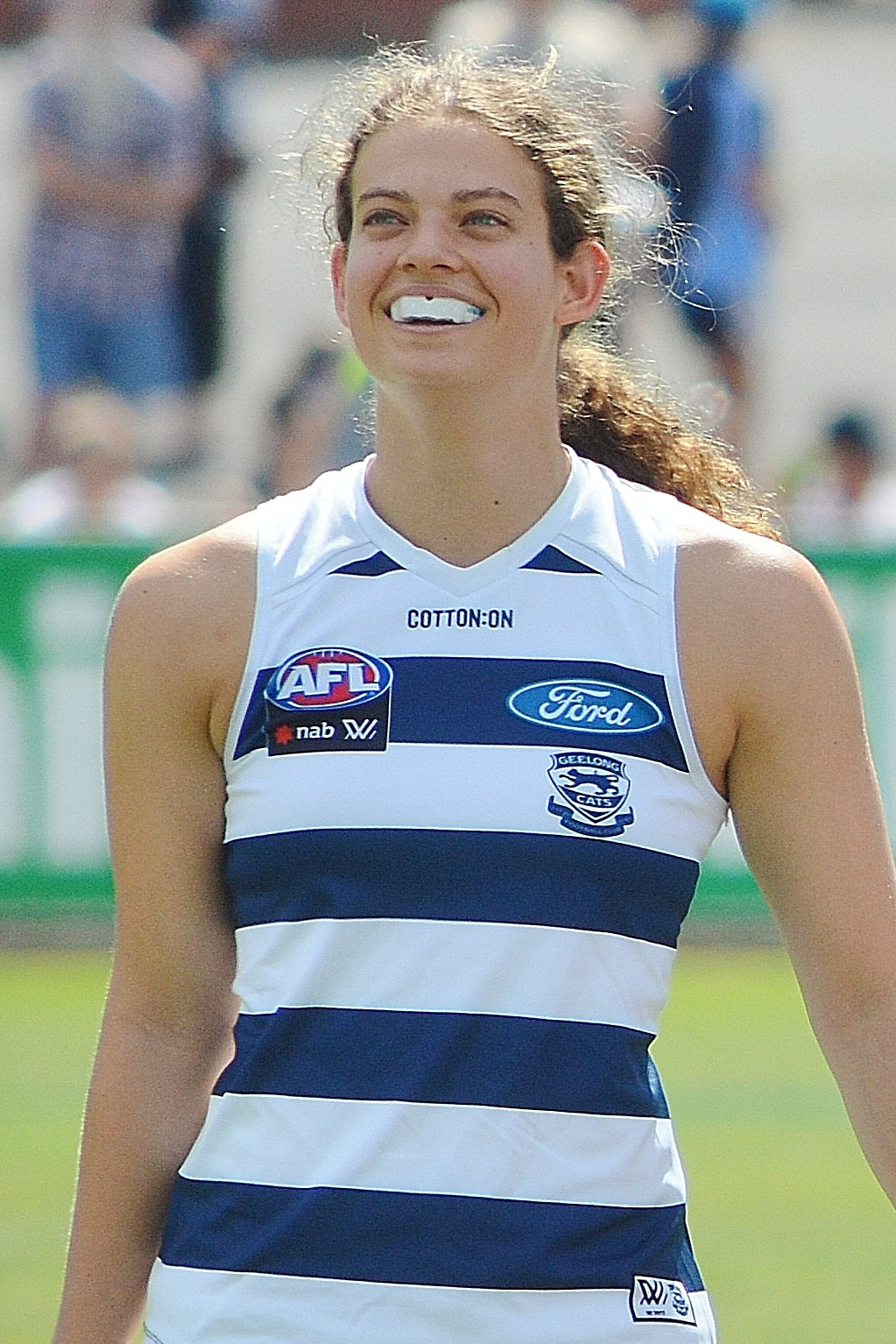 Nina Morrison with Geelong in the round 4 2020 AFLW match against Richmond at Queen Elizabeth Oval in Bendigo.